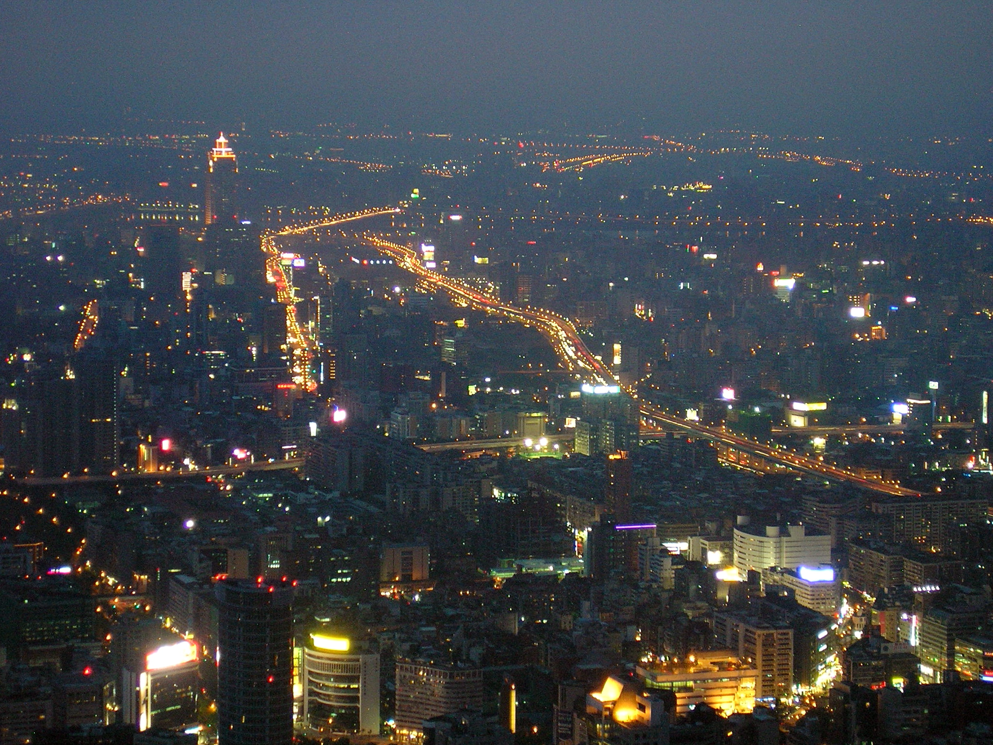 Birdseye view of Taipei City, Taiwan at night, looking towards Taipei Main Station in the Chungcheng District. Taken from the observation deck of Taipei 101, May 14 2005.